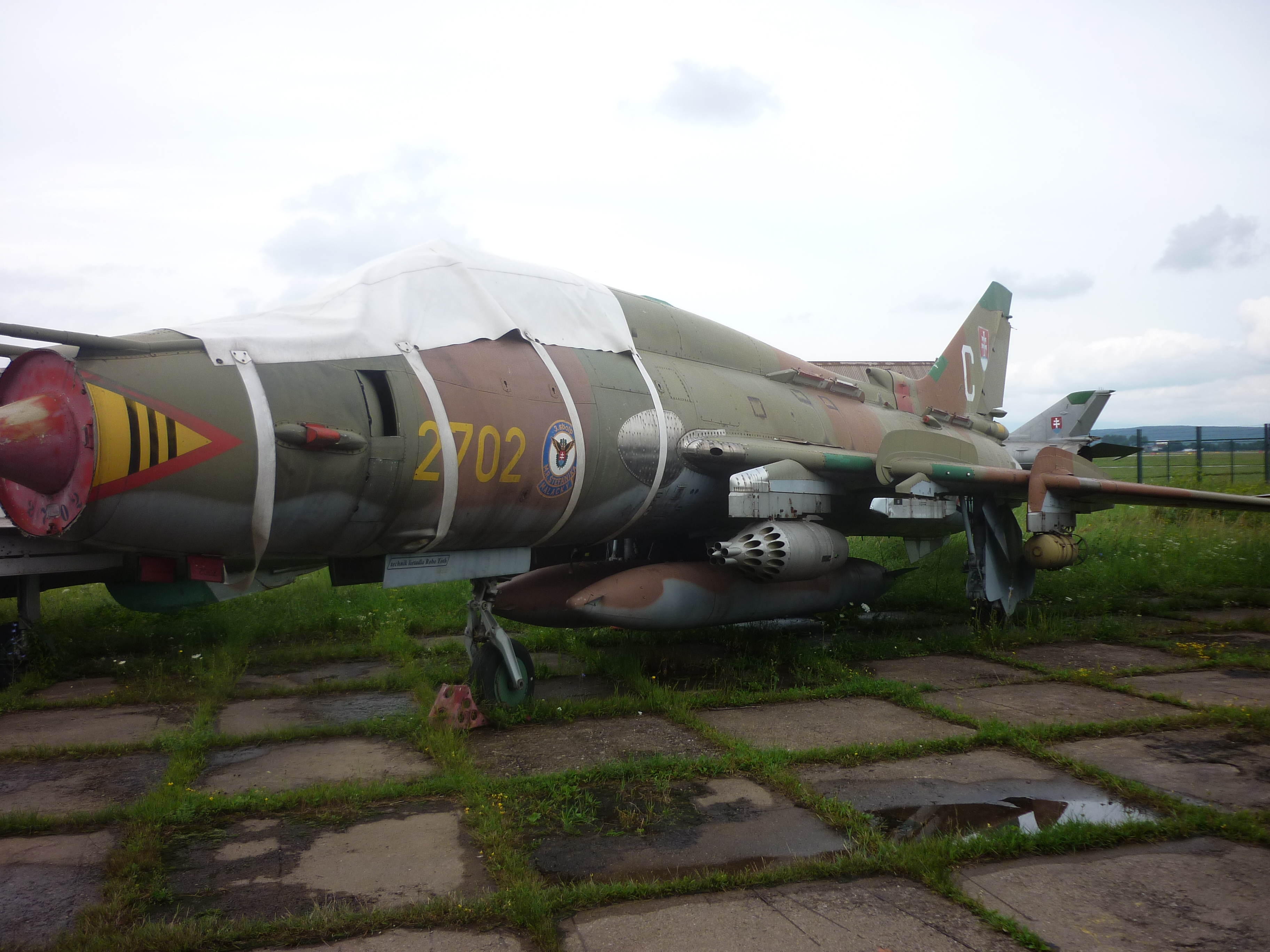 Sukhoi Su-22M4 of Slovak air force, retired from service is seen here in Košice, Slovakia.